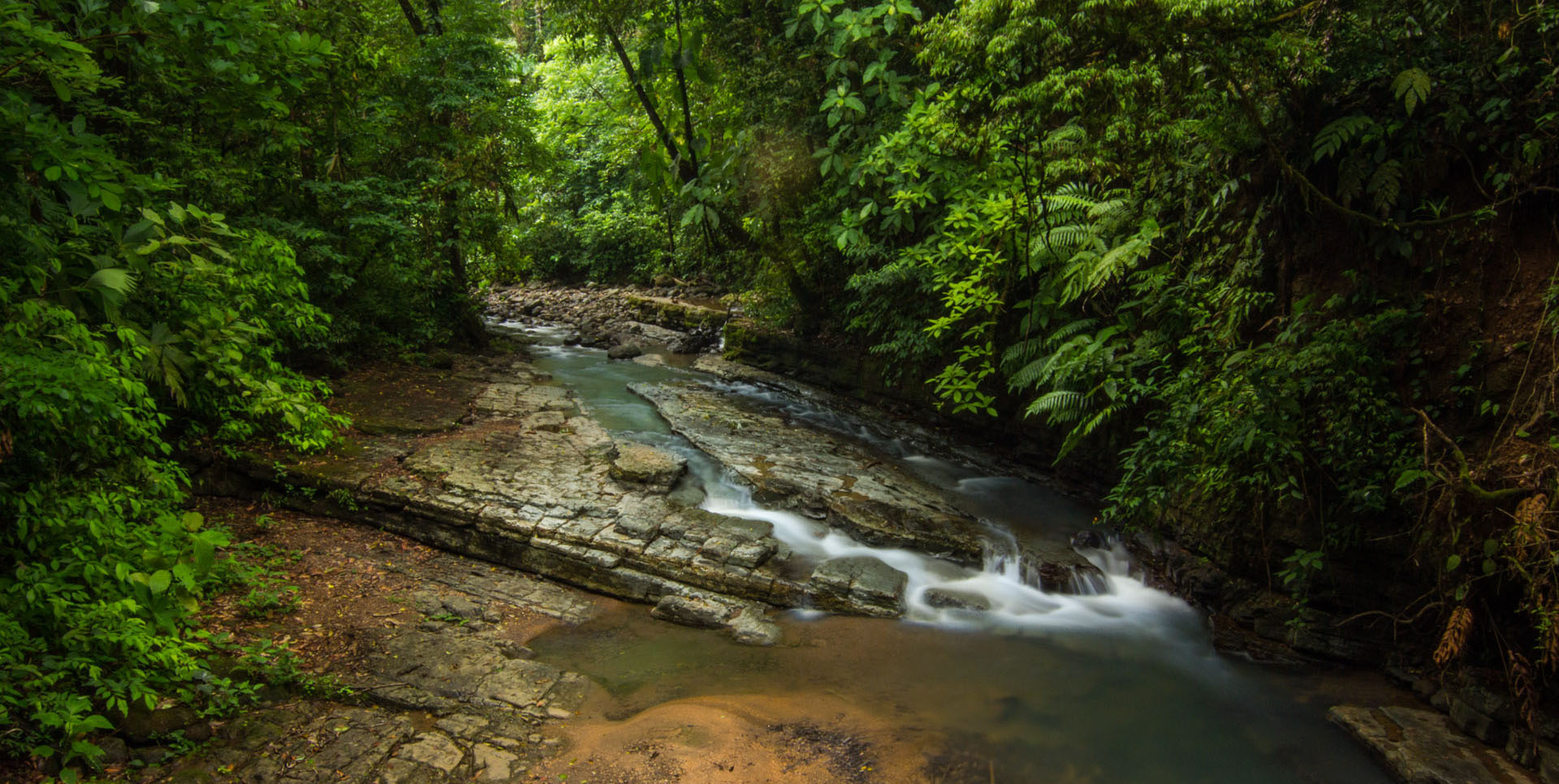 This picture was taken in La Cangreja National Park in Costa Rica. You can find more in